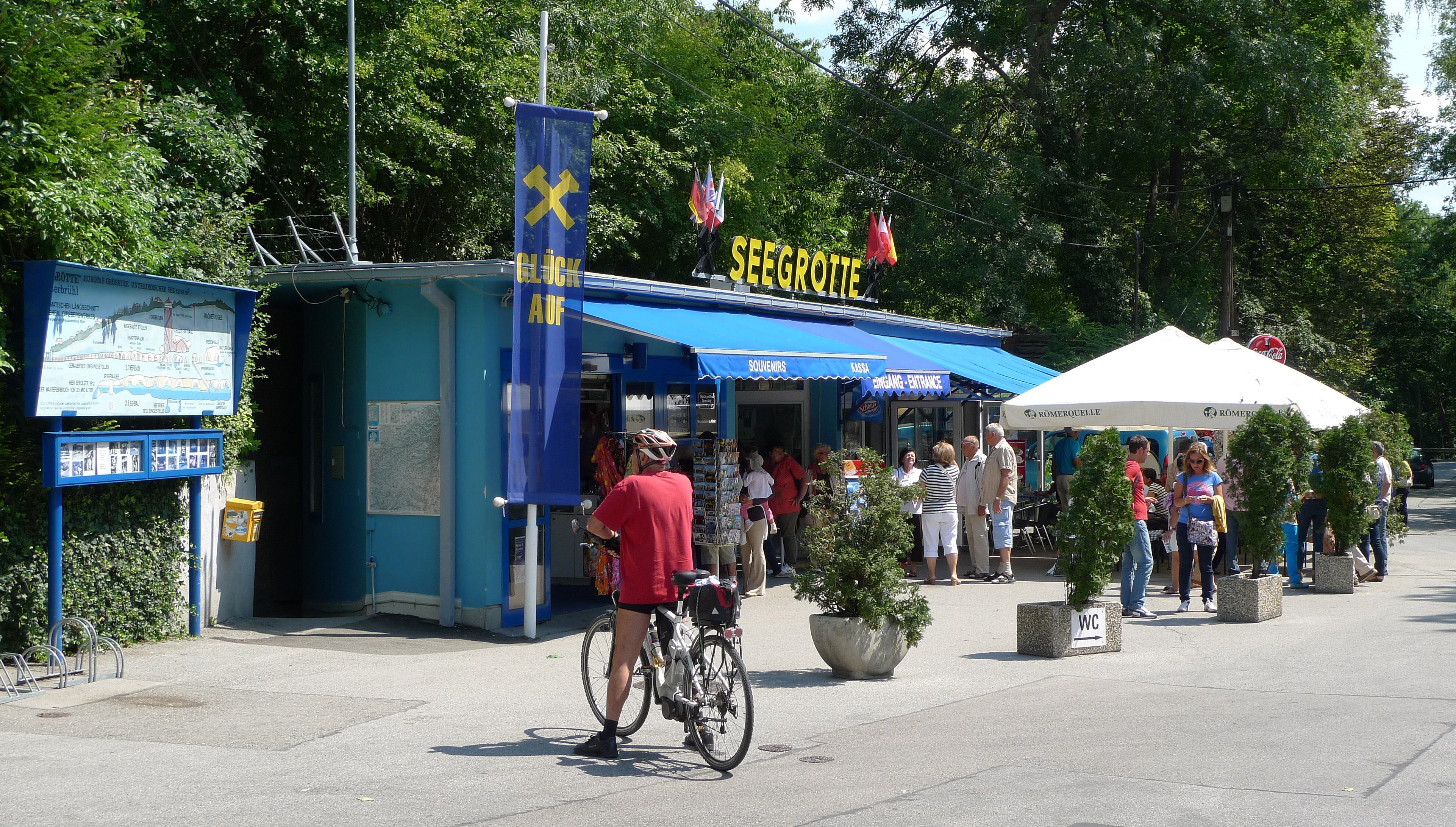 Former mine Seegrotte in Hinterbrühl, Lower Austria - entry.